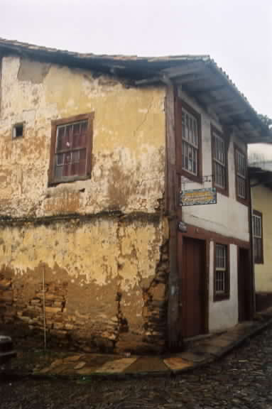 The house where Aleijadinho is reputed to have been born in. Photographs by Einar Einarsson Kvaran